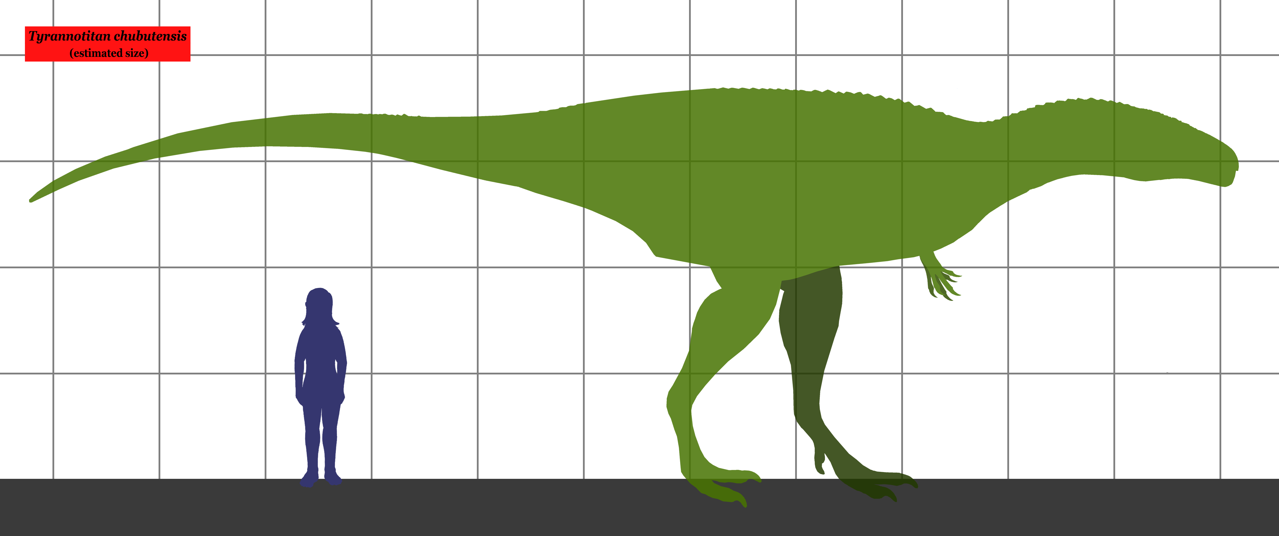 Estimated size of the theropod dinosaur Tyrannotitan chubutensis, compared to a human. Based on the corresponding size diagram.